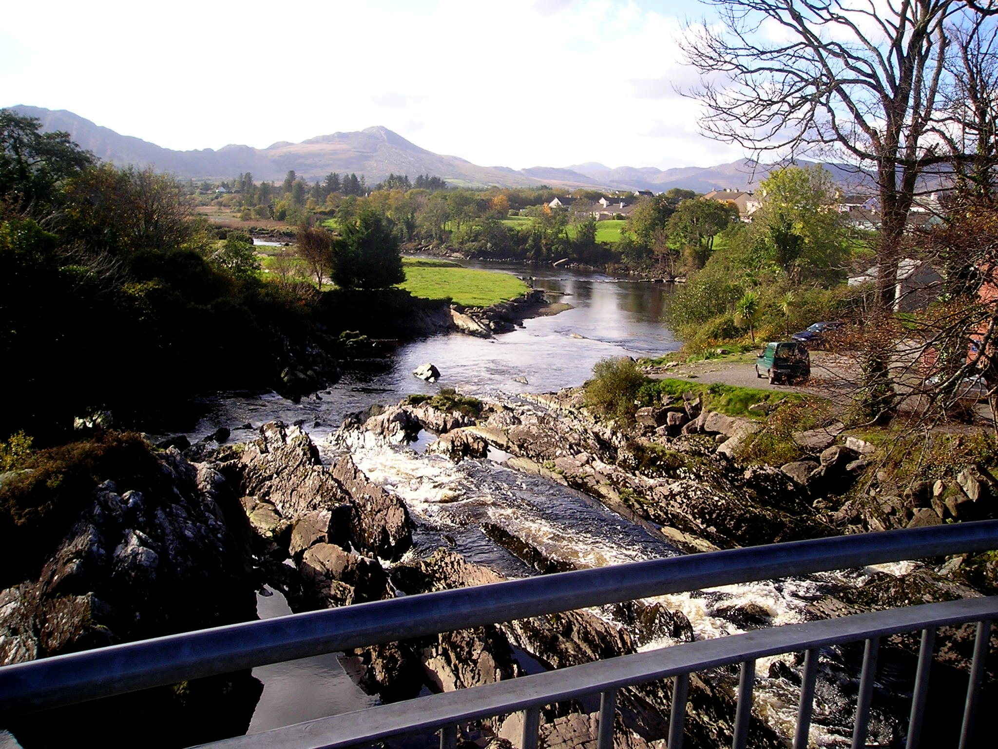 Bridge near Sneem's town square,Resaraunt next door.